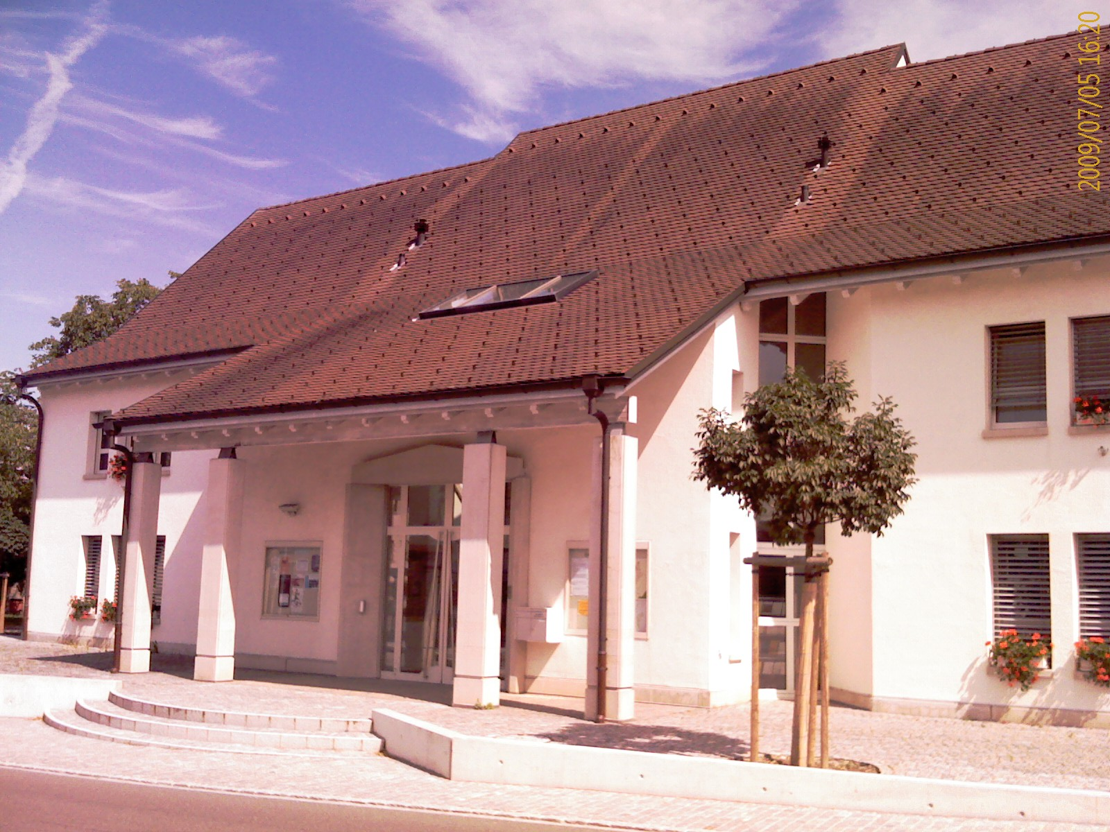 Municipal administration of Gipf-Oberfrick, canton of Aargau, SwitzerlandEsperanto: Komunuma administrejo de Gipf-Oberfrick, Kantono Argovio, Svislando